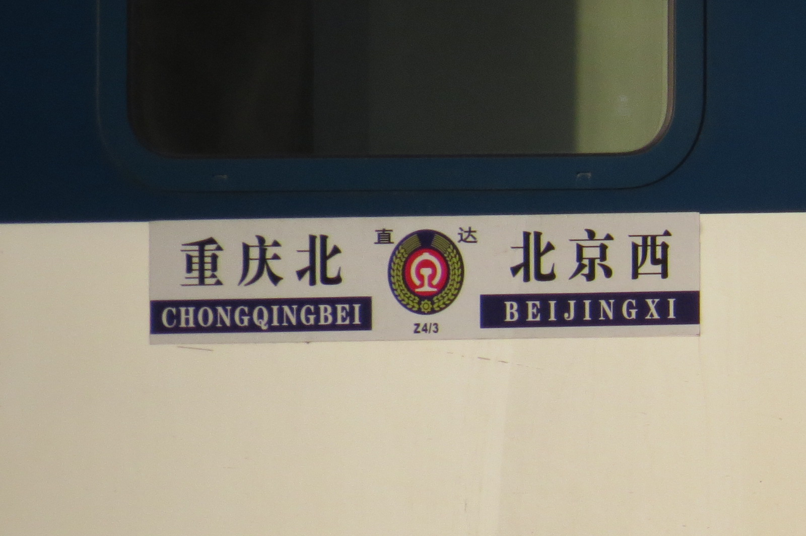 Temporarily extended to Chongqing North during Chunyun due to the large traffic from Beijing to Chongqing.